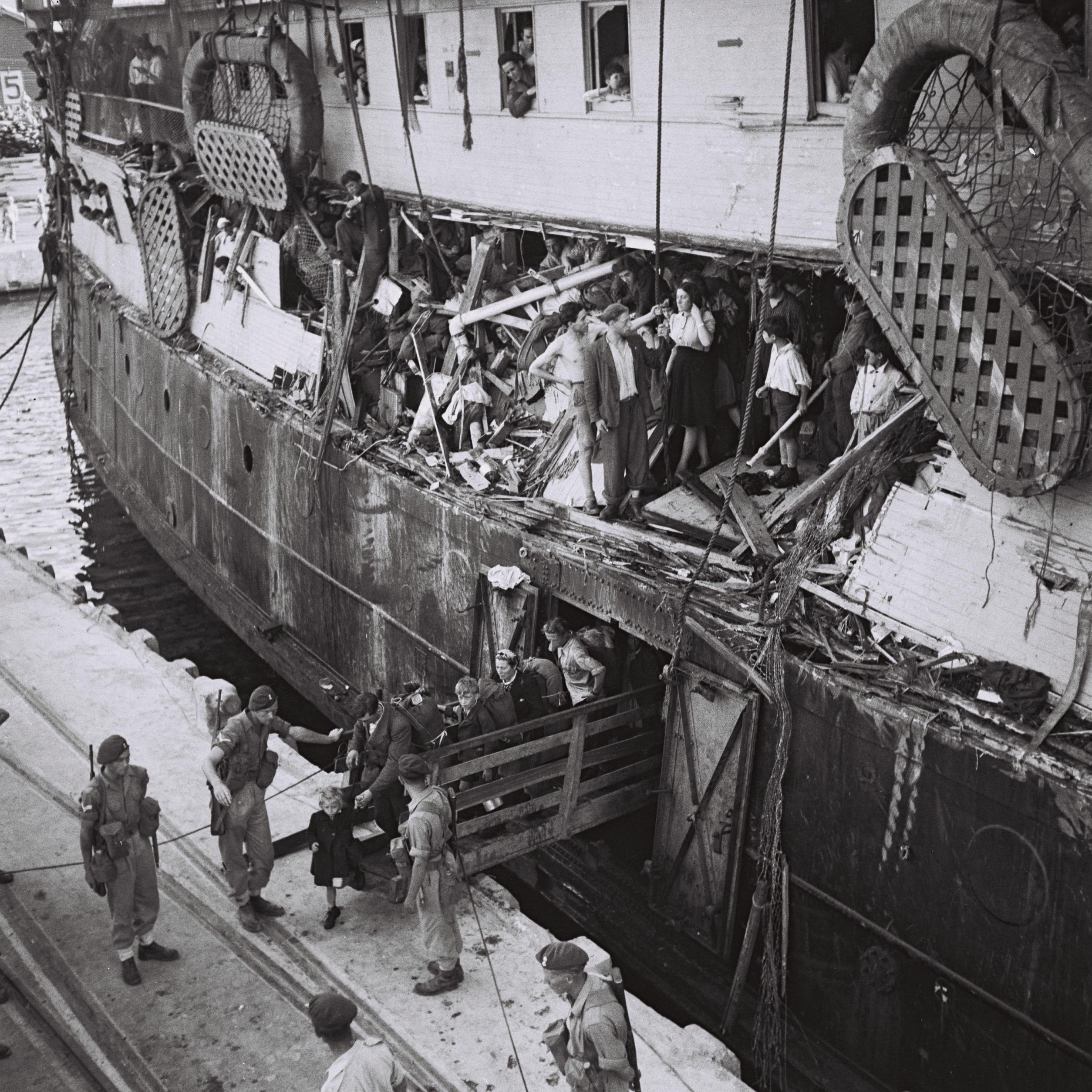 A NUMBER OF SMALL CHILDREN DISEMBARK FROM THE "EXODUS" BEFORE THE SHIP'S DEPORTATION FROM HAIFA PORT.